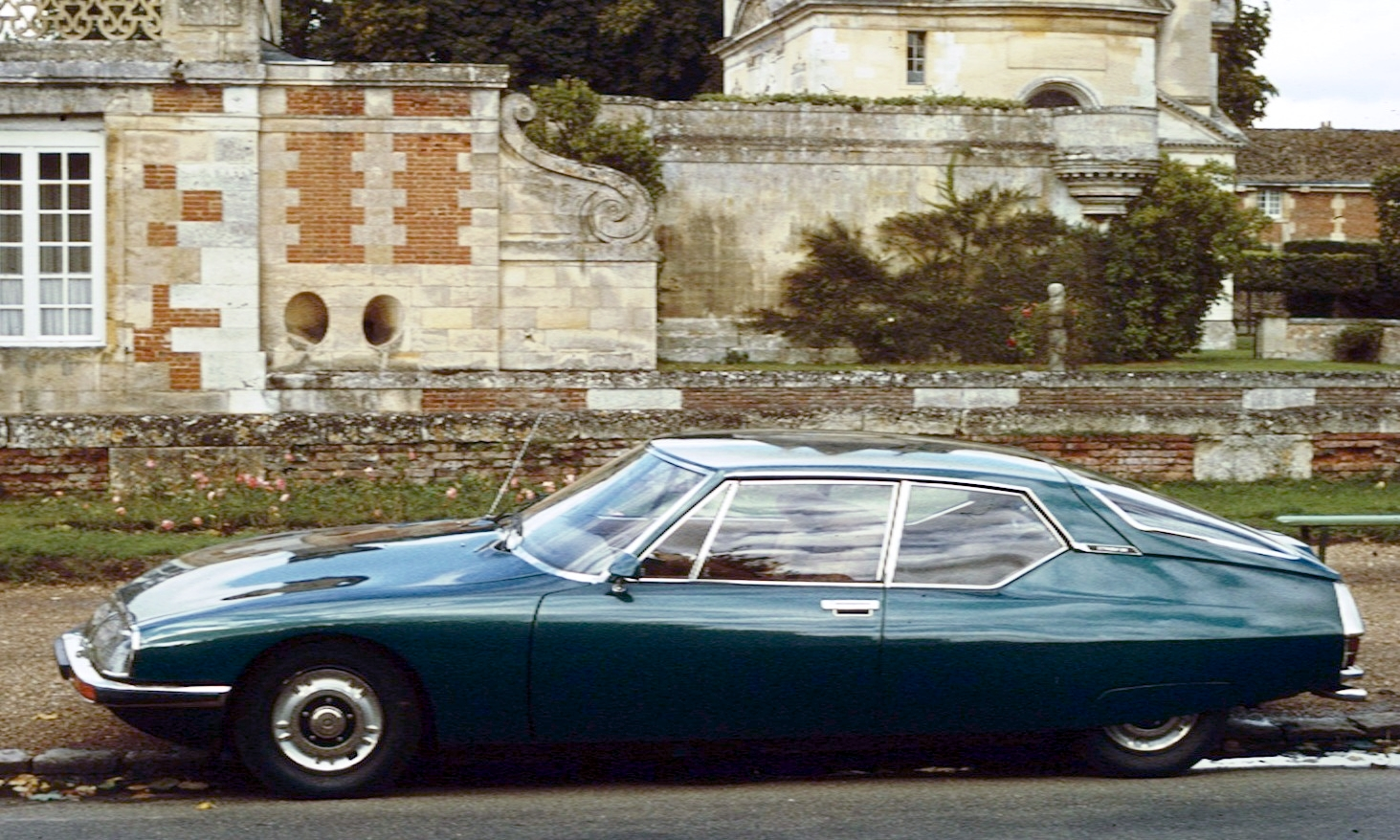 Citroen SM in profile